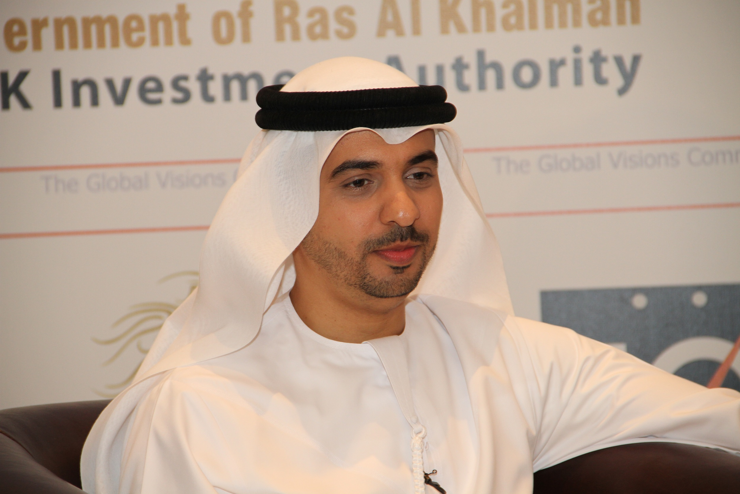 Photograph of Ahmed Bukhatir at Horassis Global Community, Rak, UAE